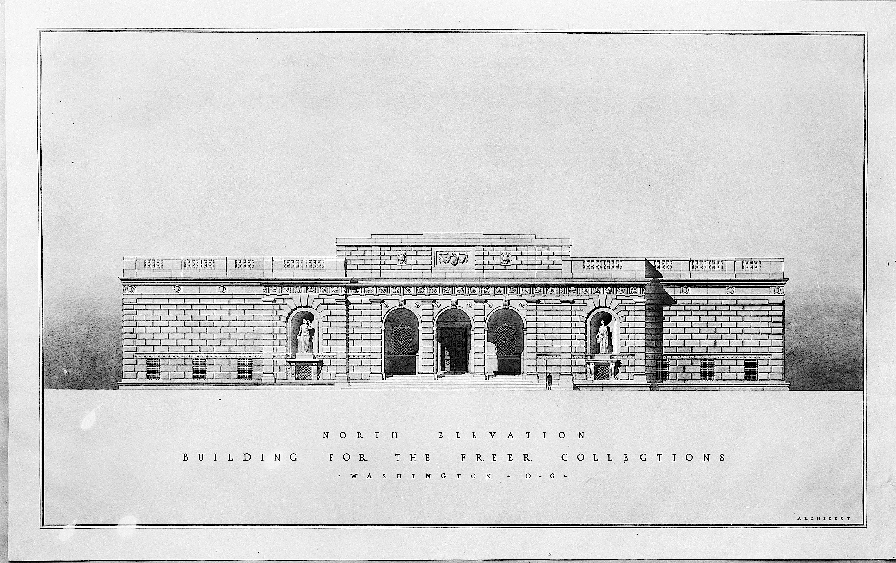 North Exterior Elevation, Freer Gallery of Art